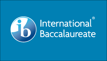 the logo of an international educational program